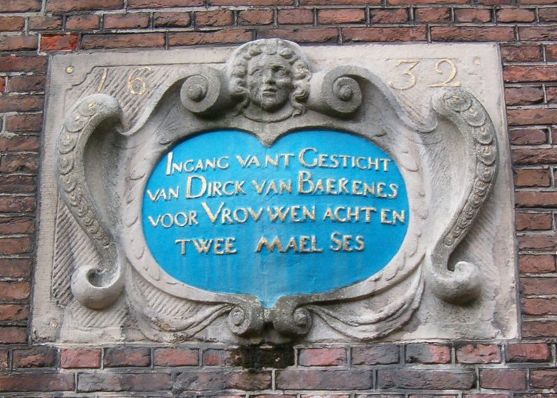 Entrance of the Bakenesserhofje Haarlem, Netherlands.